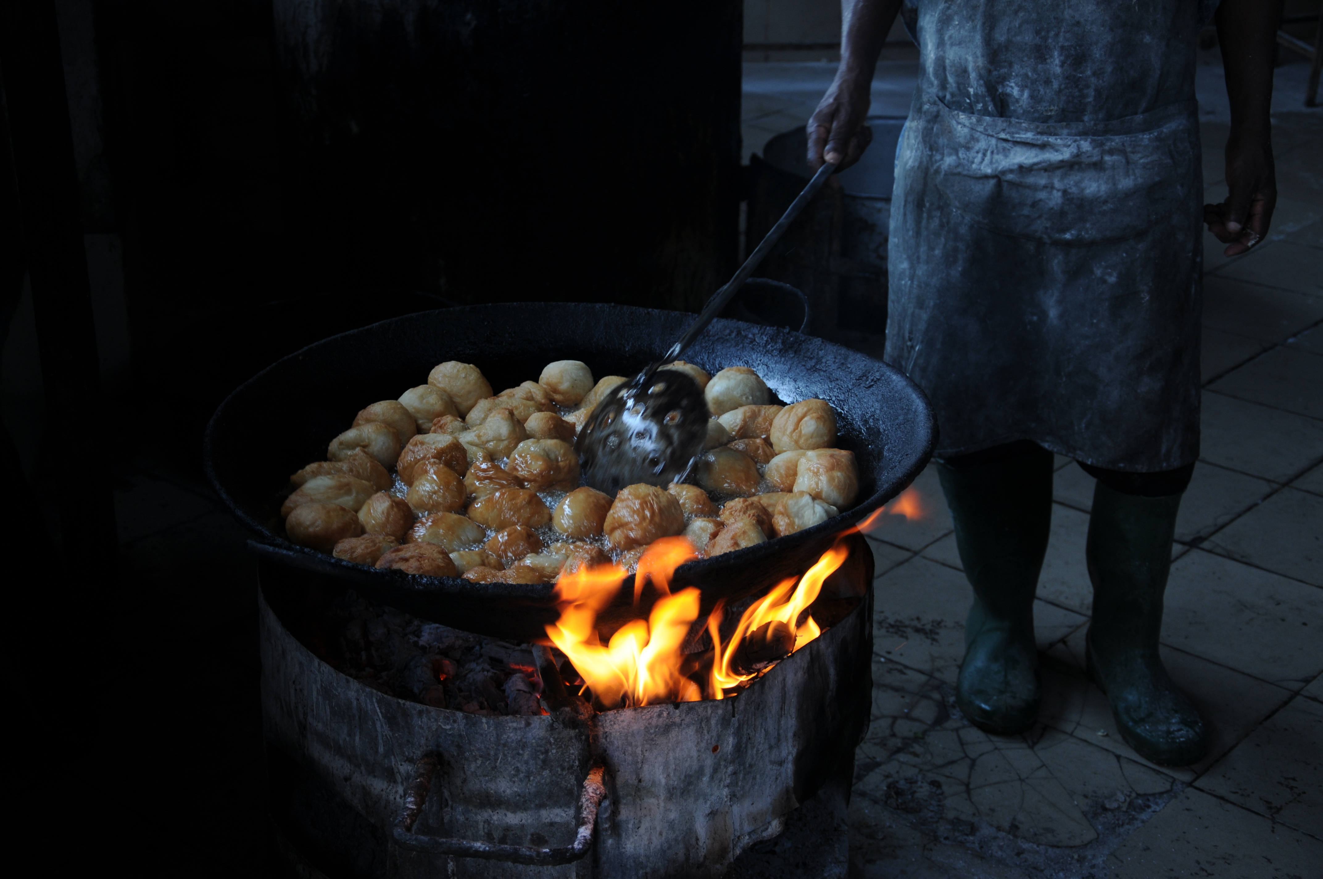 Describes the production of Mandazi, a typical Swahili meal.